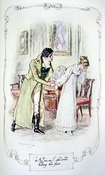 Illustration for ch.31 of Mansfield Park, in the Series of English Idylls, published by J.M Dent & Co. (London) and E.P. Dutton & Co. (New York). “No, no, no!” she cried, hiding her face .